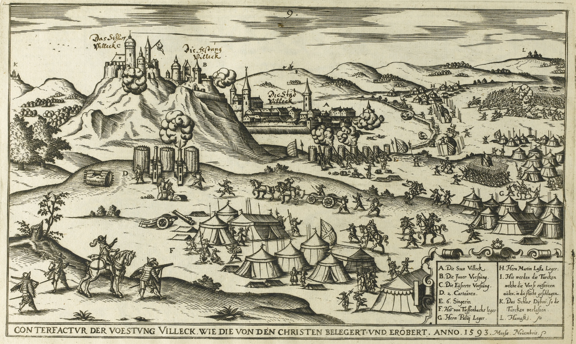 Filakovo in 1593 by Ortelius